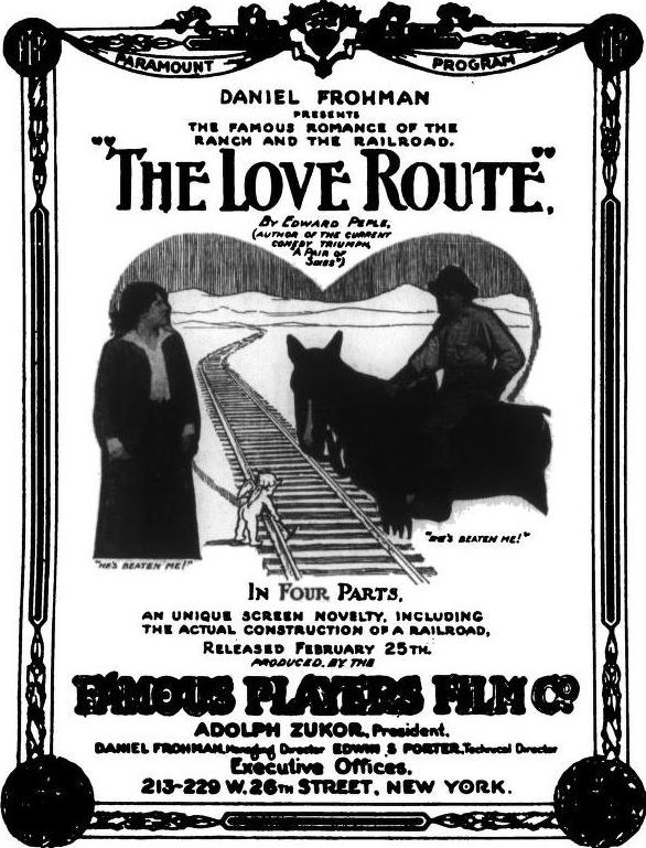 Advertisement for the American western film The Love Route (1915) with an unidentified actor and actress, on page 28 of the February 20, 1915 Variety.